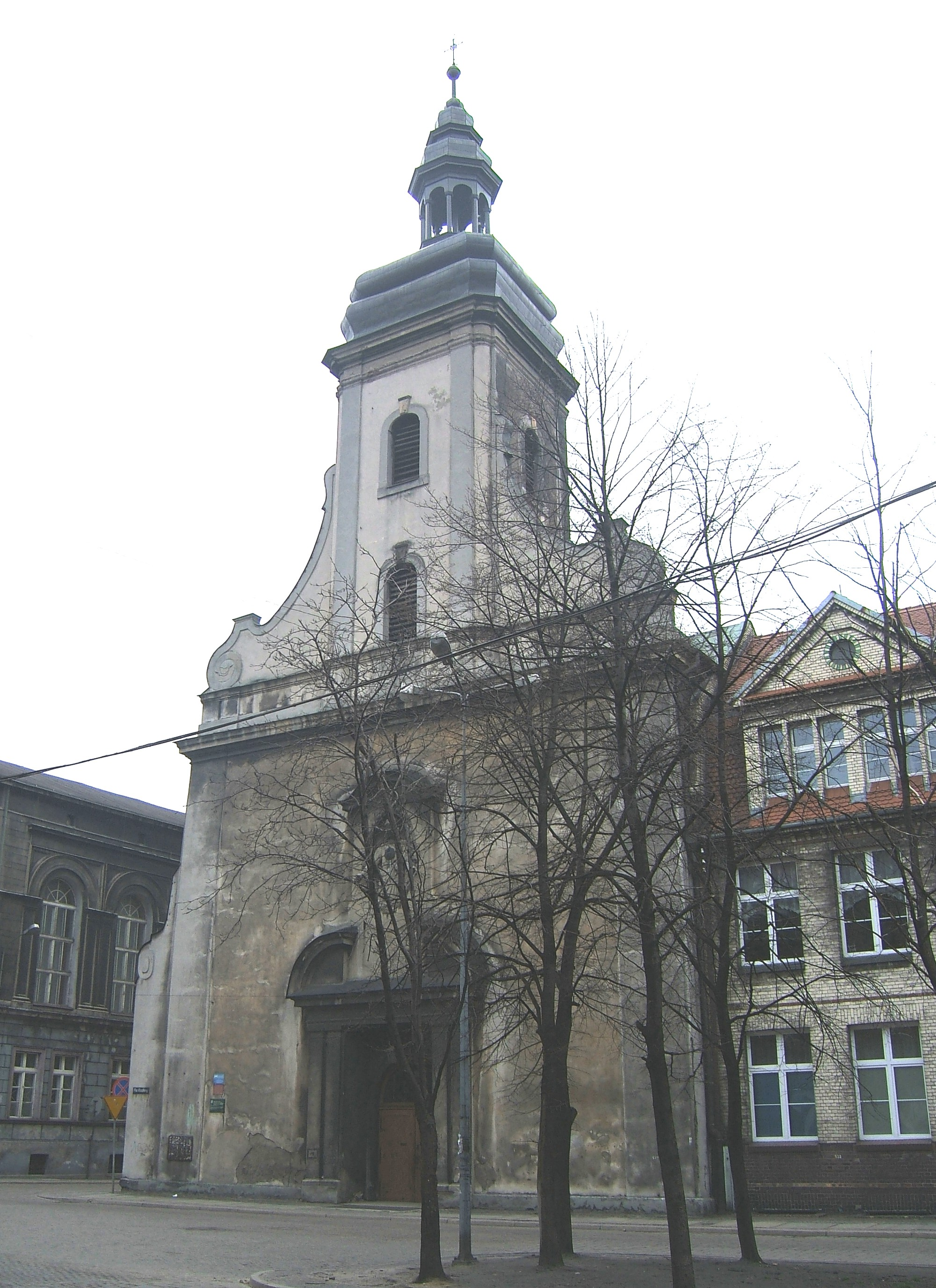 Baroque church of St. Adalbert from 1721 in Bytom.